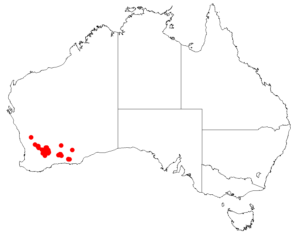 Acacia acoma Occurrence data from Australasia Virtual Herbarium downloaded from on 8 December 2018